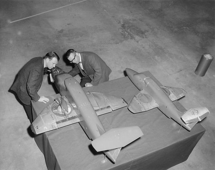 Ryan Aeronautical Chief Test Pilot Lou Everett, other person unknown, studying XV-5A models.